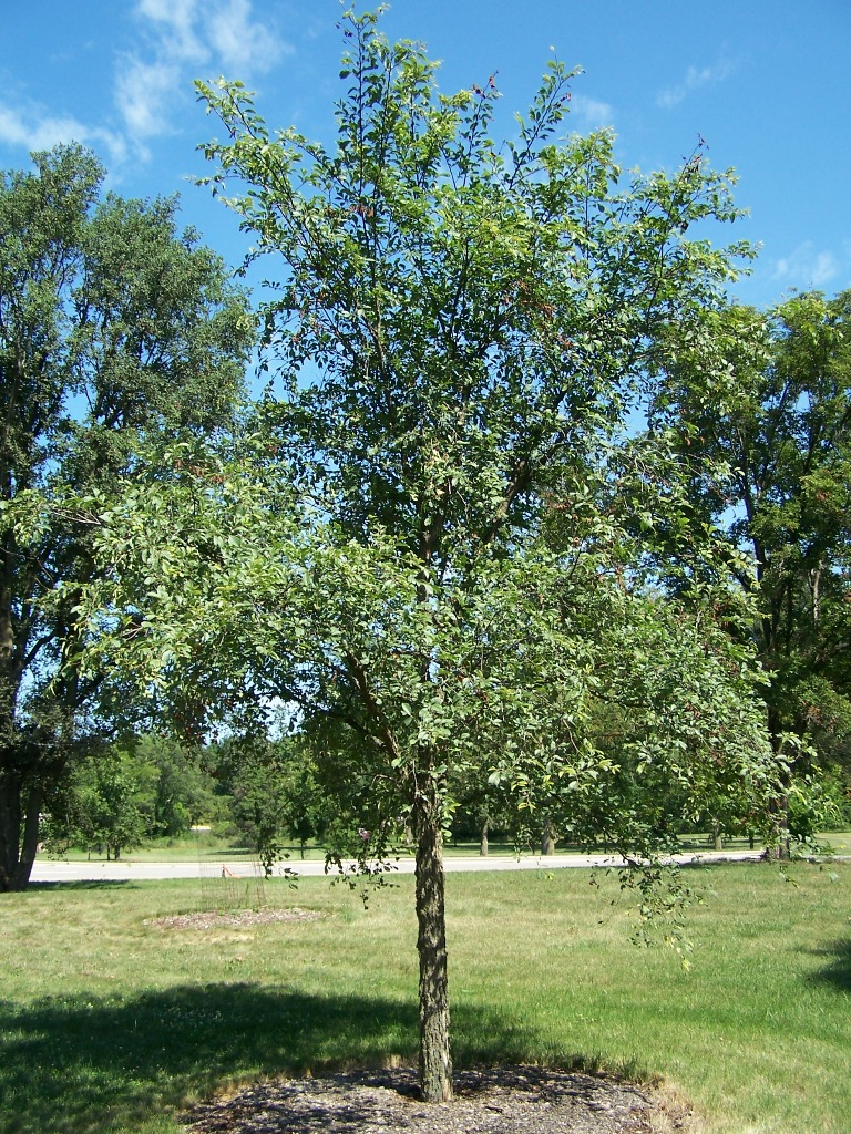 Chenmou Elm Ulmus chenmoui. Specimen at Morton Arboretum acc. 51-96-1.